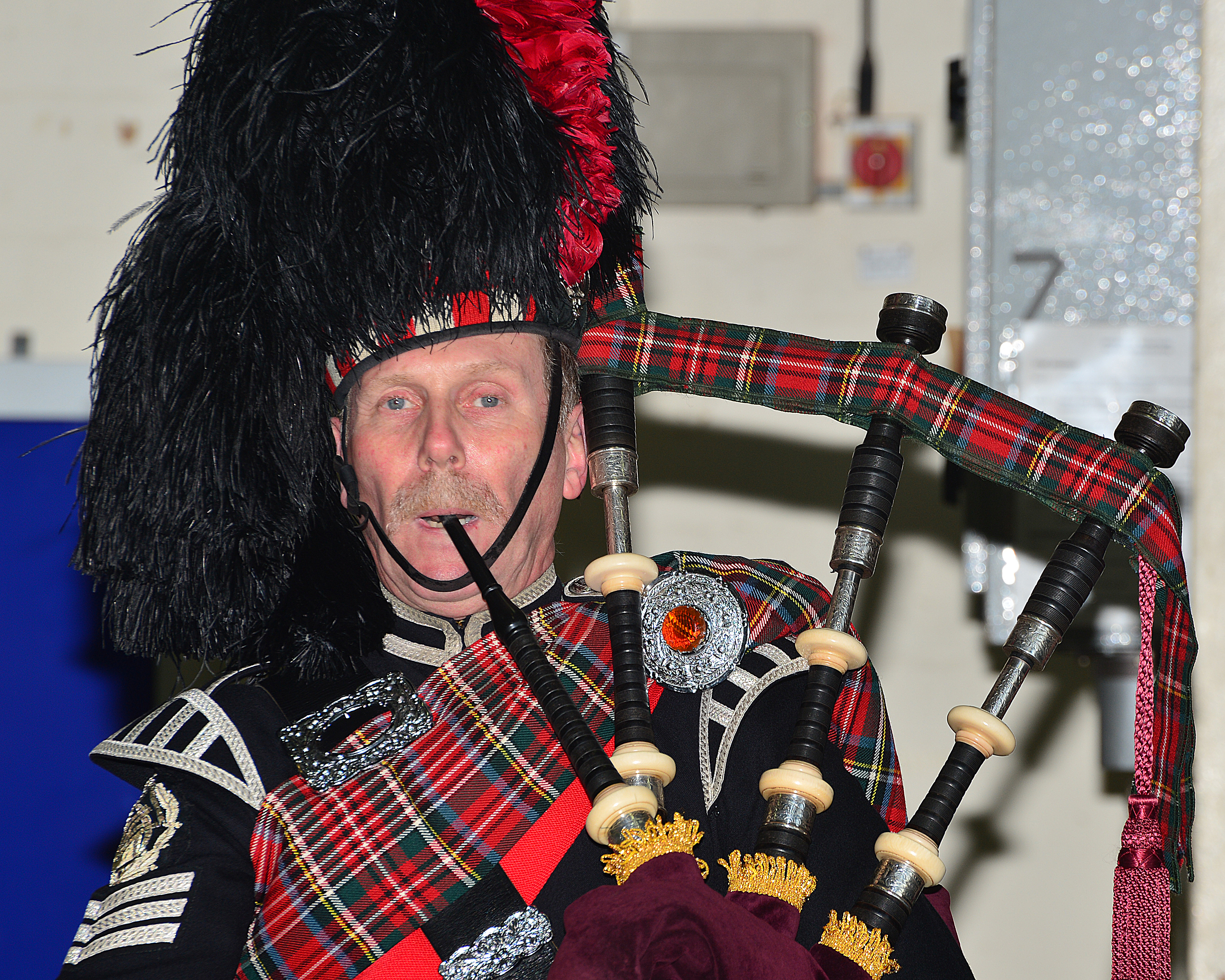 Mr. Dave Harper plays “Amazing Grace” during a memorial service, Jan. 17, 2014. The memorial service was held to honor Capt. Sean Ruane, Capt. Christopher Stover, Tech. Sgt. Dale Mathews and Staff Sgt. Afton Ponce, 56th Rescue Squadron, who were killed during an HH-60G Pave Hawk helicopter crash while performing a low-level training mission on the Norfolk coast Jan. 7, 2014.